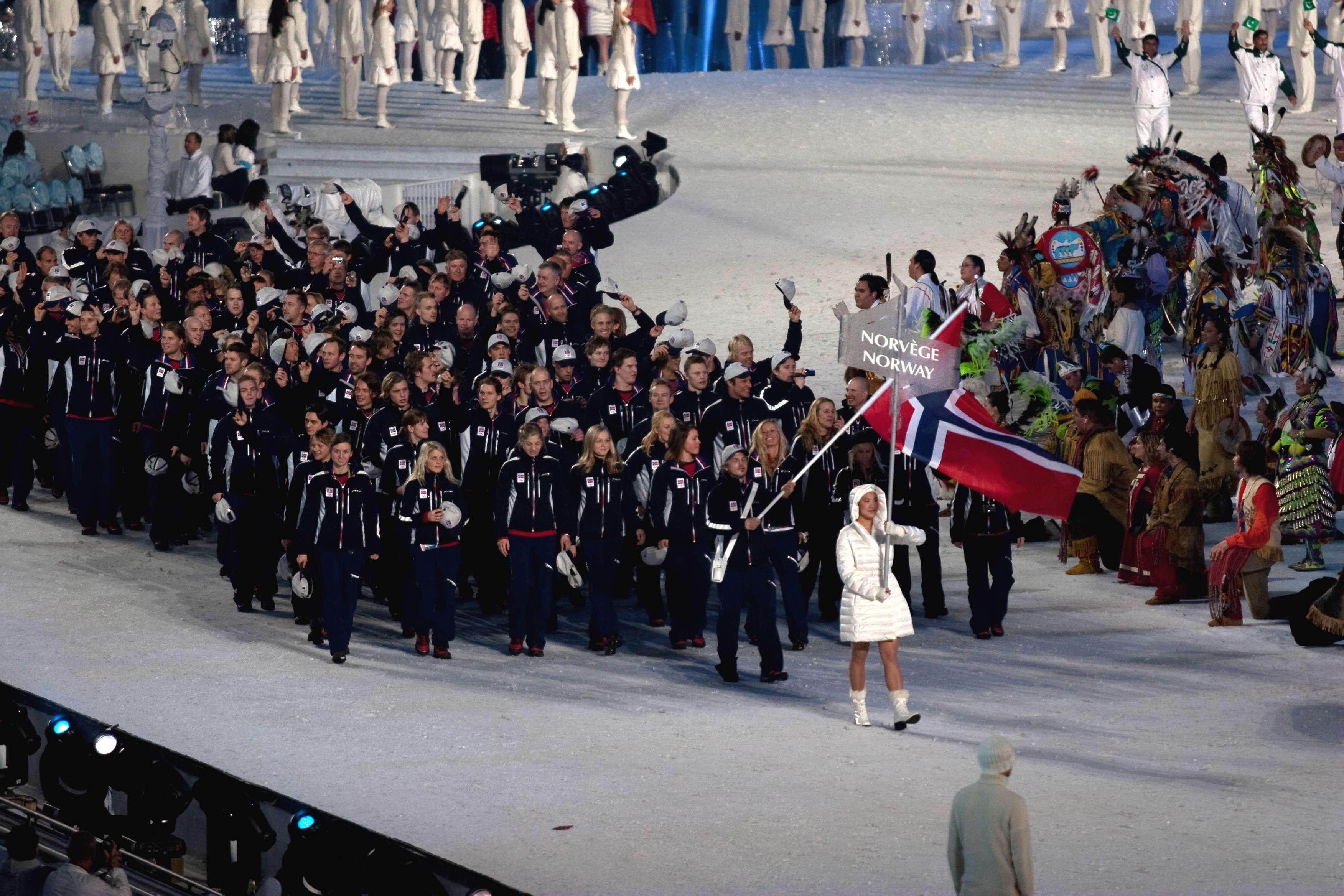 The athletes from Norway entering the stadium at the opening ceremonies of the 2010 Winter Olympics.